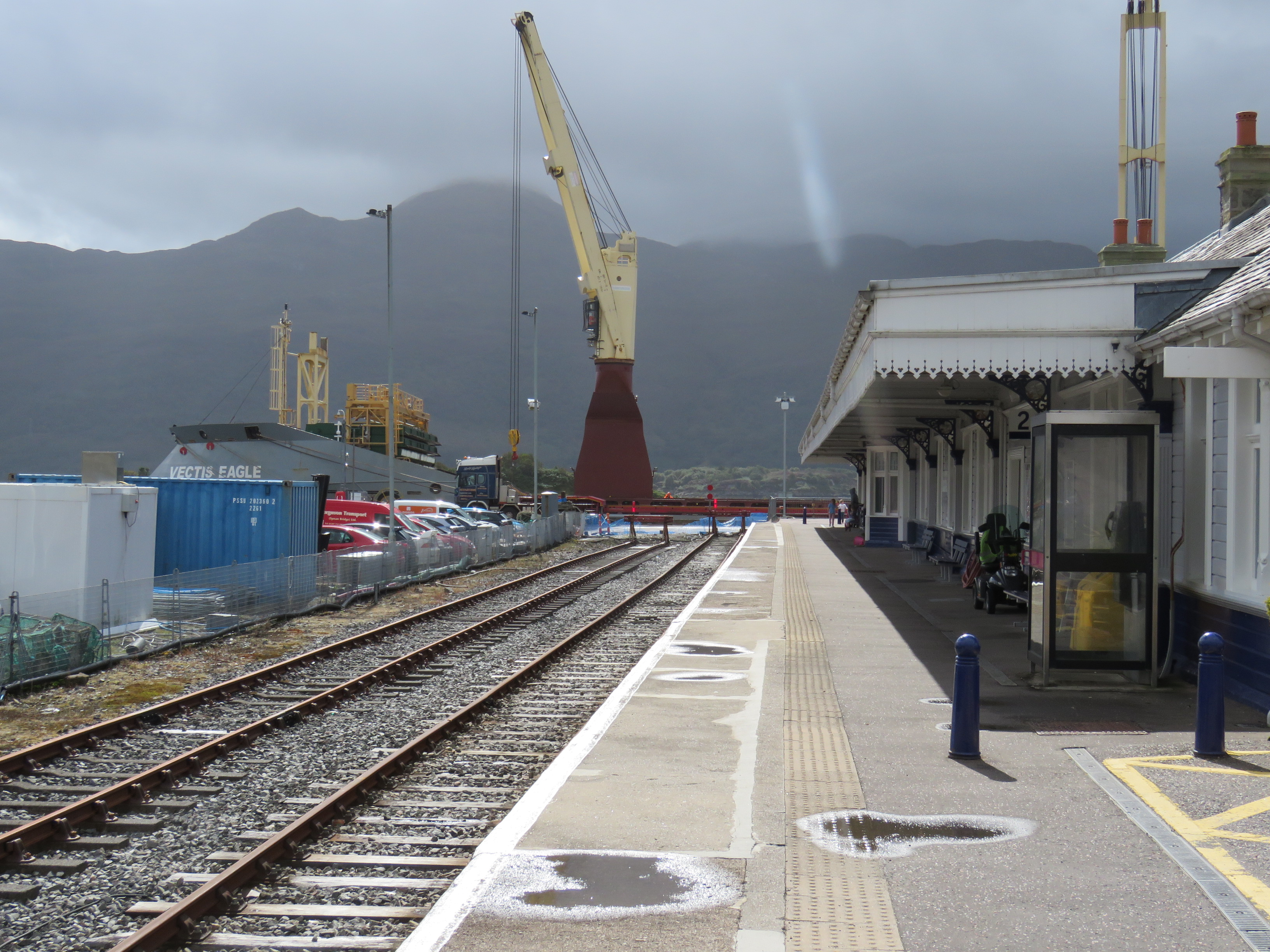 Kyle of Lochalsh station, Scotland